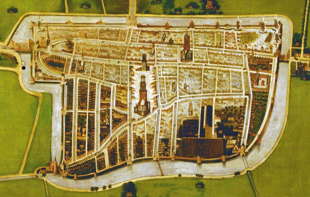 Map, showing the city of Delft after a fire in 1536. The west of the city (shown in the top of the picture) has been flattened by the fire. The painter indicated this by using lighter colours for the ruins. The painter used a combination of top-down view for the map, and birds-eye view for the individual buildings.